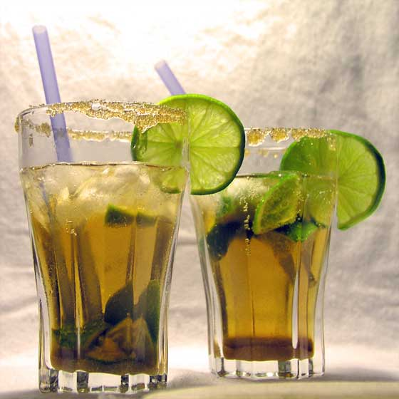 Two Glasses of Tschunk